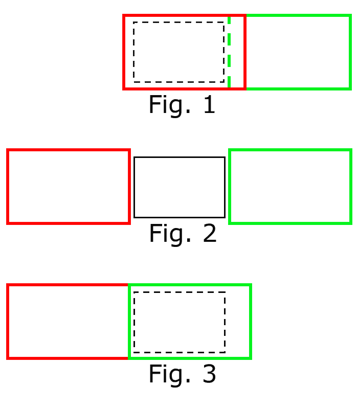 Diagram of focal plane shutter, slow shutter speed.